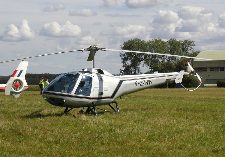 Enstrom 280FX Shark (G-ZZWW), built 1990, photographed at the Heli-Day, Kemble Airfield, England, in August 2003.